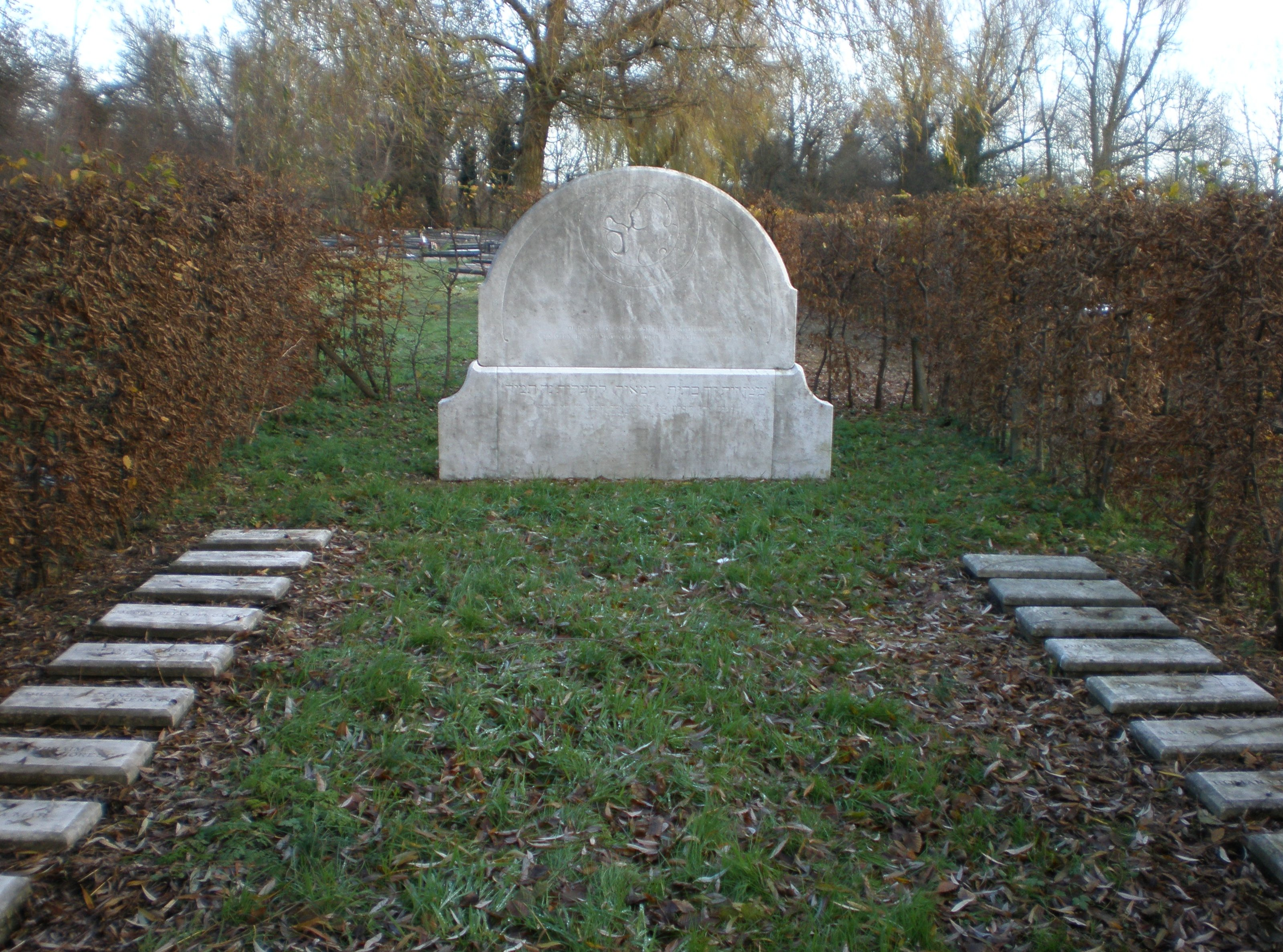 Memorial of the Jewish cemetery in Ouderkerk aan de Amstel.